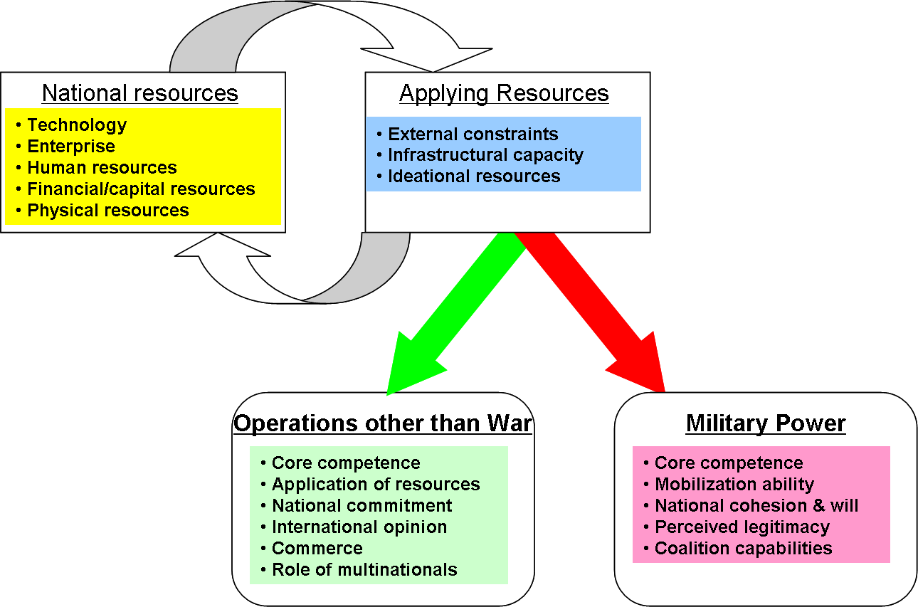 View of components of national power relative to net assessment